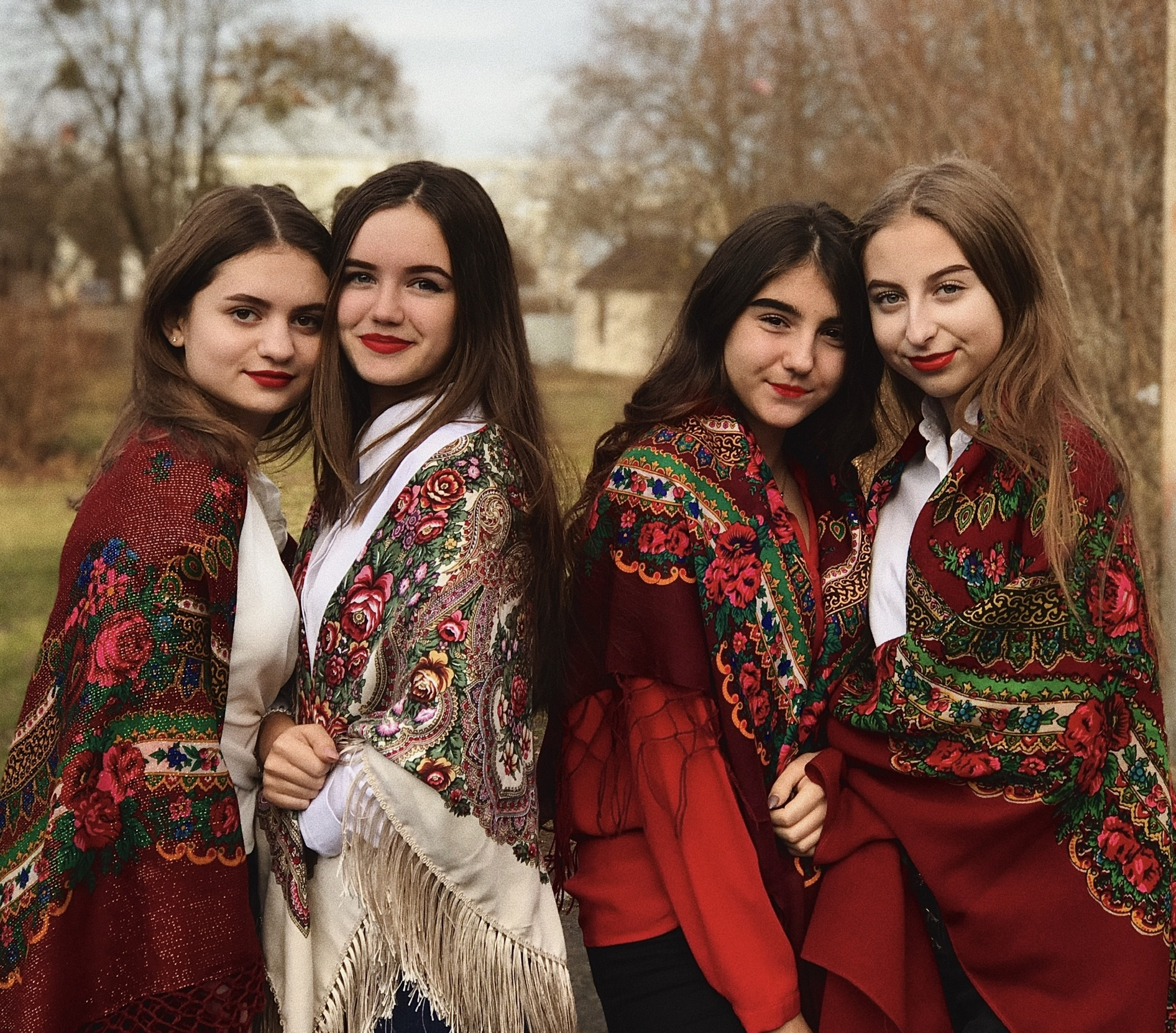 This photo has been taken in the country: Ukraine